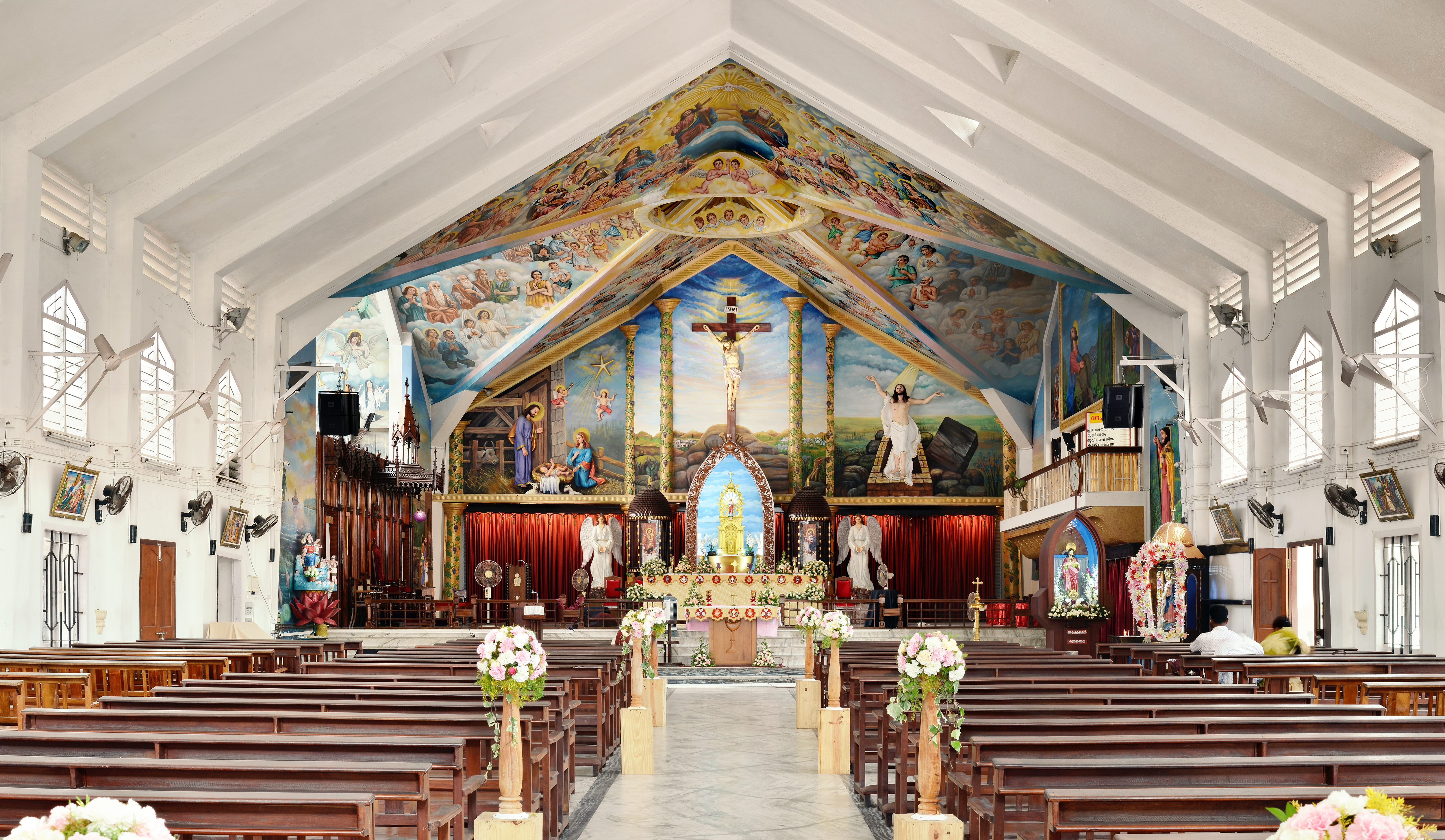 St. Mary's Syro-Malabar Cathedral Basilica, Ernakulam by Augustus Binu